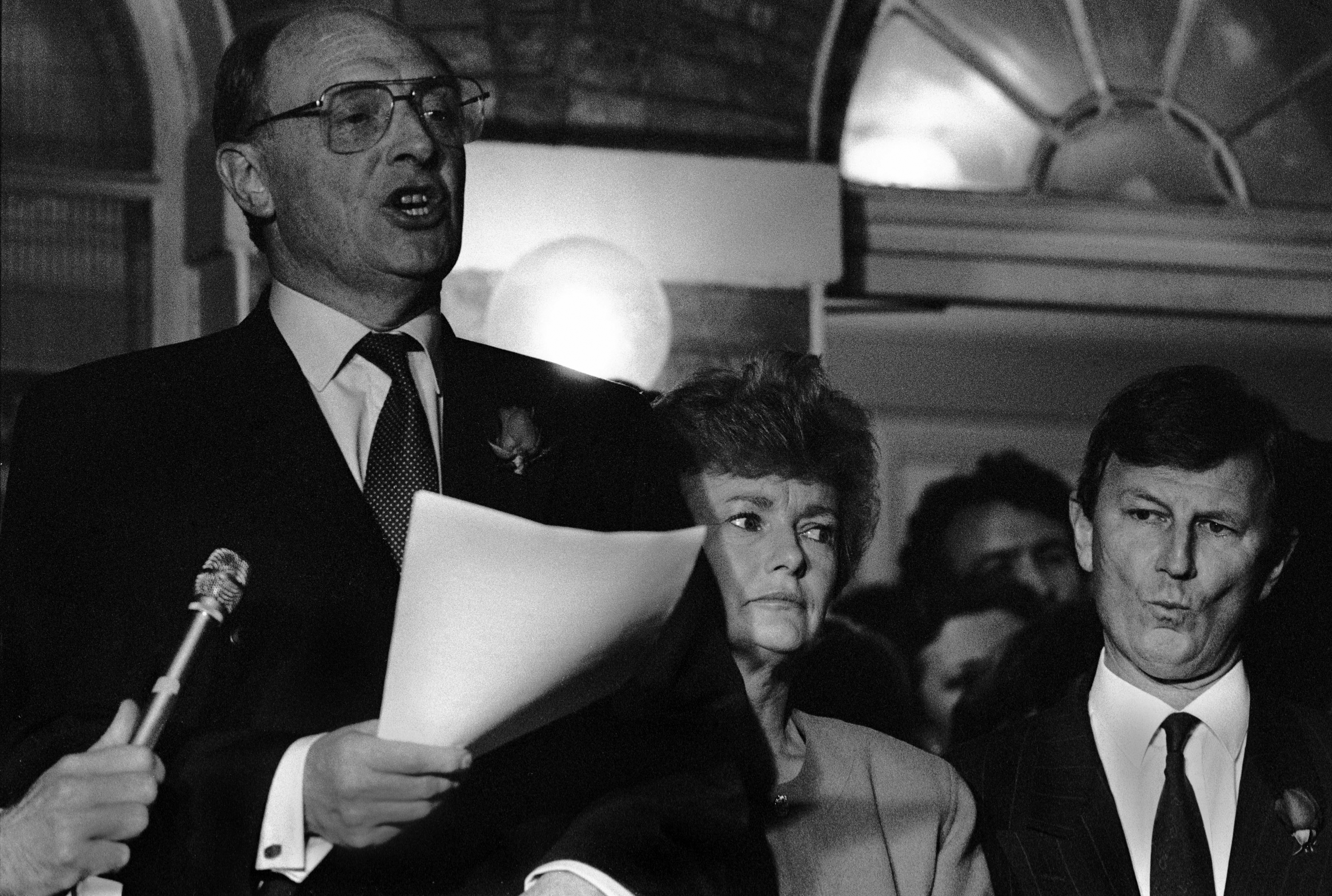 Labour Leader Neil Kinnock conceding the 1992 UK General Election. Pictured with his wife Glenys and on right New Zealander Bryan Gould then Labour Shadow Cabinet Member. In 1994 Gould returned to New Zealand as Vice Chancellor of Waikato University.